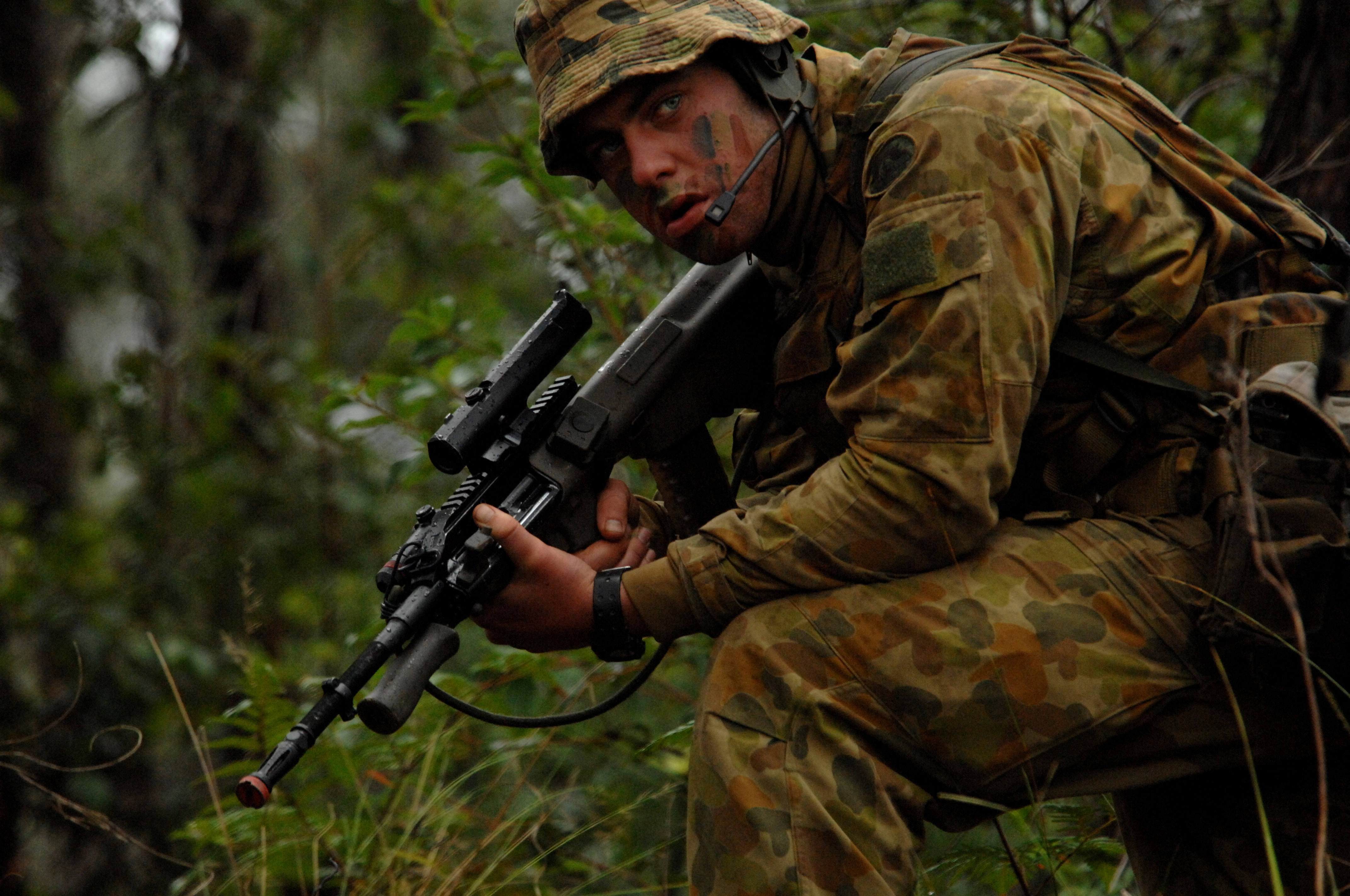 An Australian army soldier from the 2nd Battalion, Royal Australian Regiment conducts a foot patrol during exercise Talisman Sabre 2007 in Shoalwater Bay, Australia, June 22, 2007. The biennial exercise is designed to train Australian and U.S. forces in planning and conducting combined task force operations, which will help improve combat readiness and interoperability.